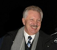 Vladimir Torlopov, a Russian politician.